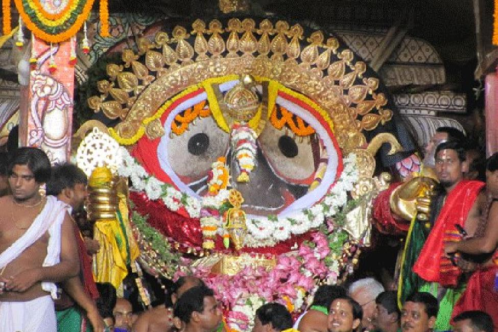 Suna besa or Golden Attire of Lord Shri Jagannath of Puri, Lord Jagannath Chariot Festival, Puri